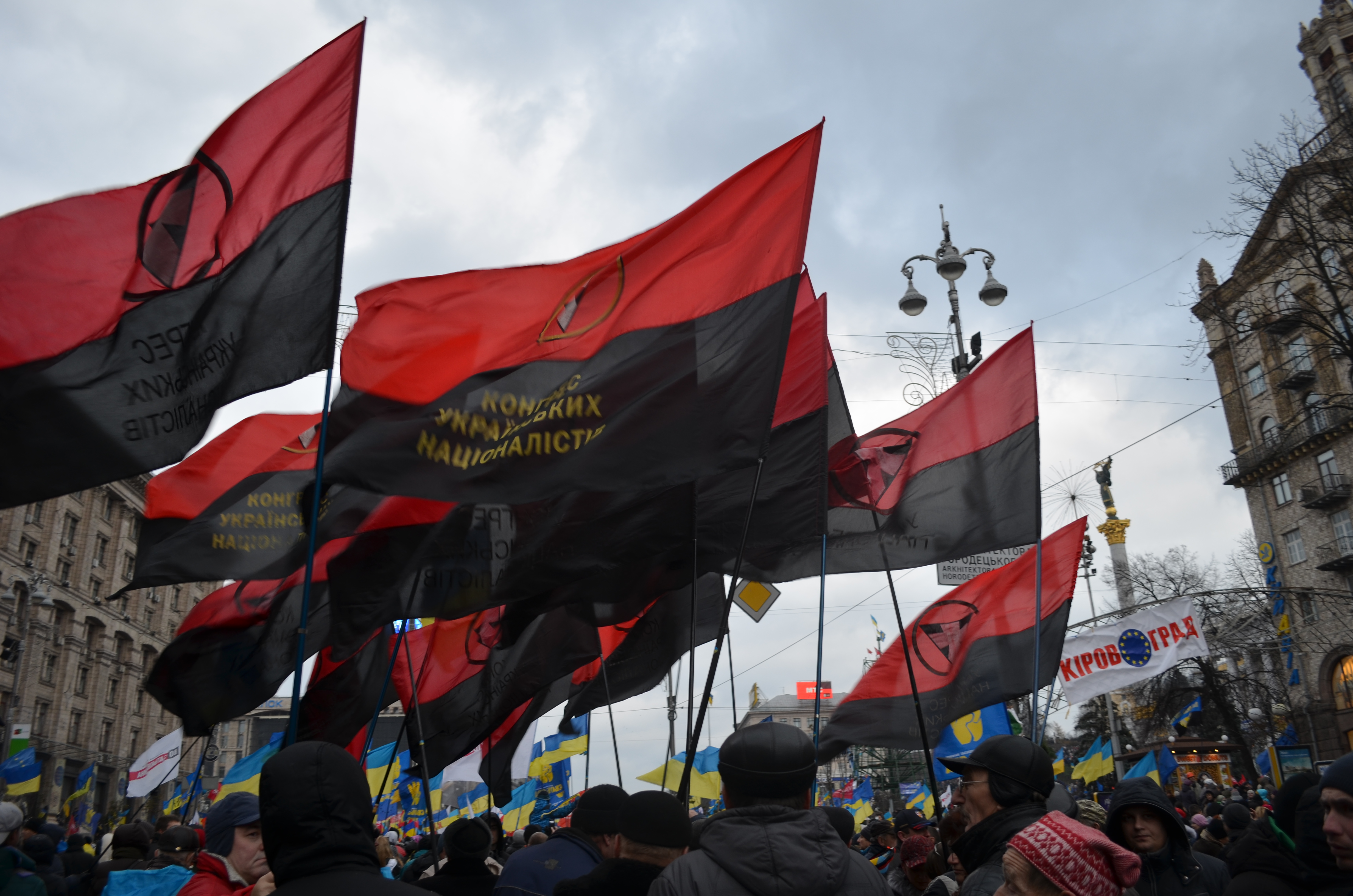 Euromaidan in Kyiv 01/DEC/13